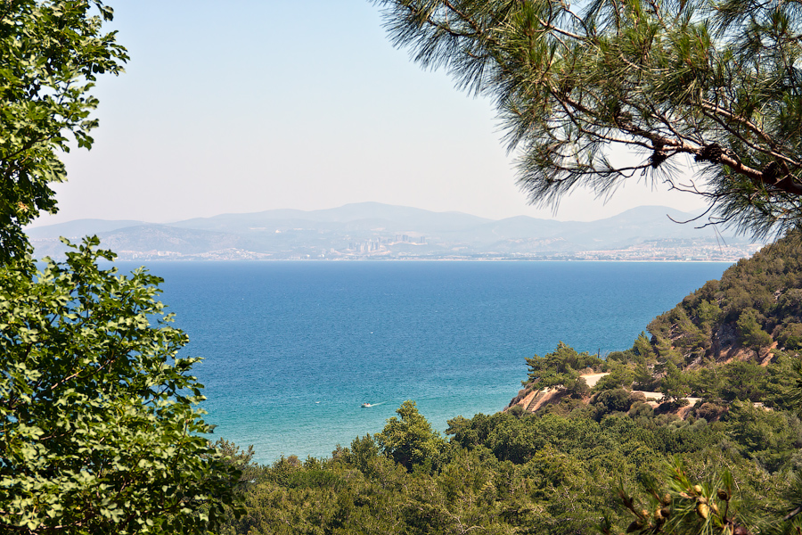 View of Kuşadası from Milli Park